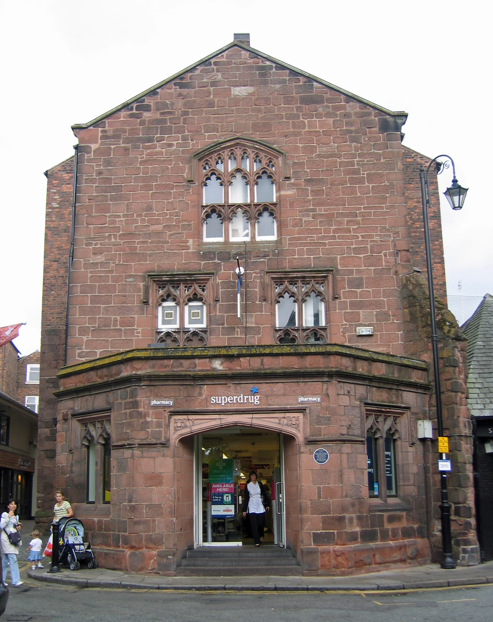 Photograph of the former chapel of St Nicholas, St Werburgh Street, Chester, Cheshire, England